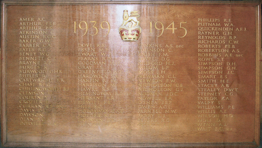 A photograph of the World War Two memorial of Strand School, taken whilst the building and conversion work was being carried out on the former grammar school.